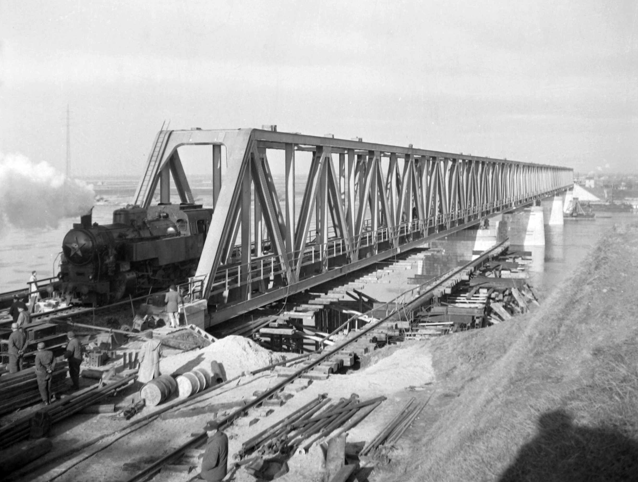 Railway bridge at Komárom.